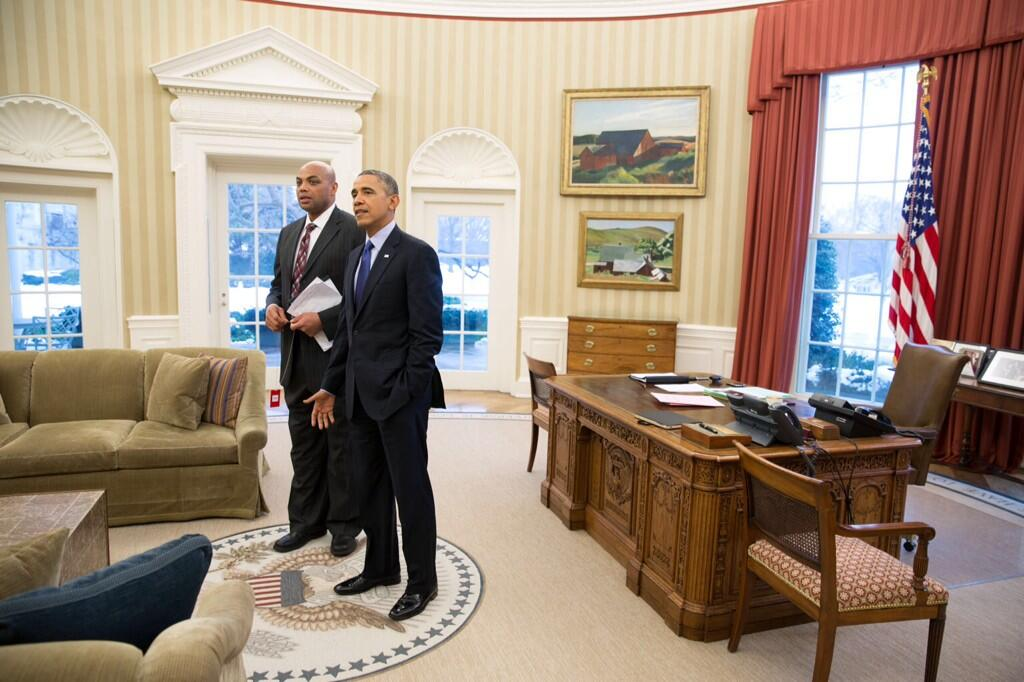 Pres Obama shows Charles Barkley the Oval Office following their interview for this weekend's NBA AllStar game